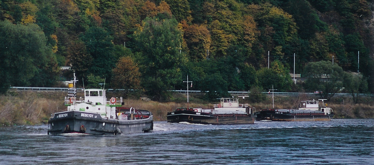 Tug conwoy with tug Beskydy and two motor barges at Elbe river